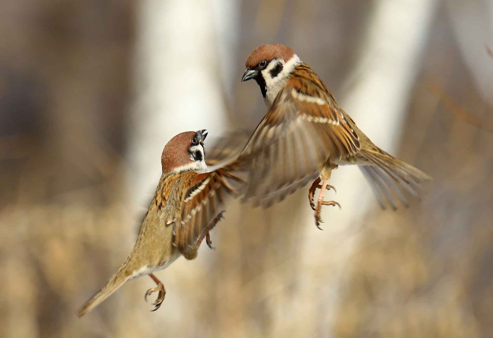 500px provided description: Waltz